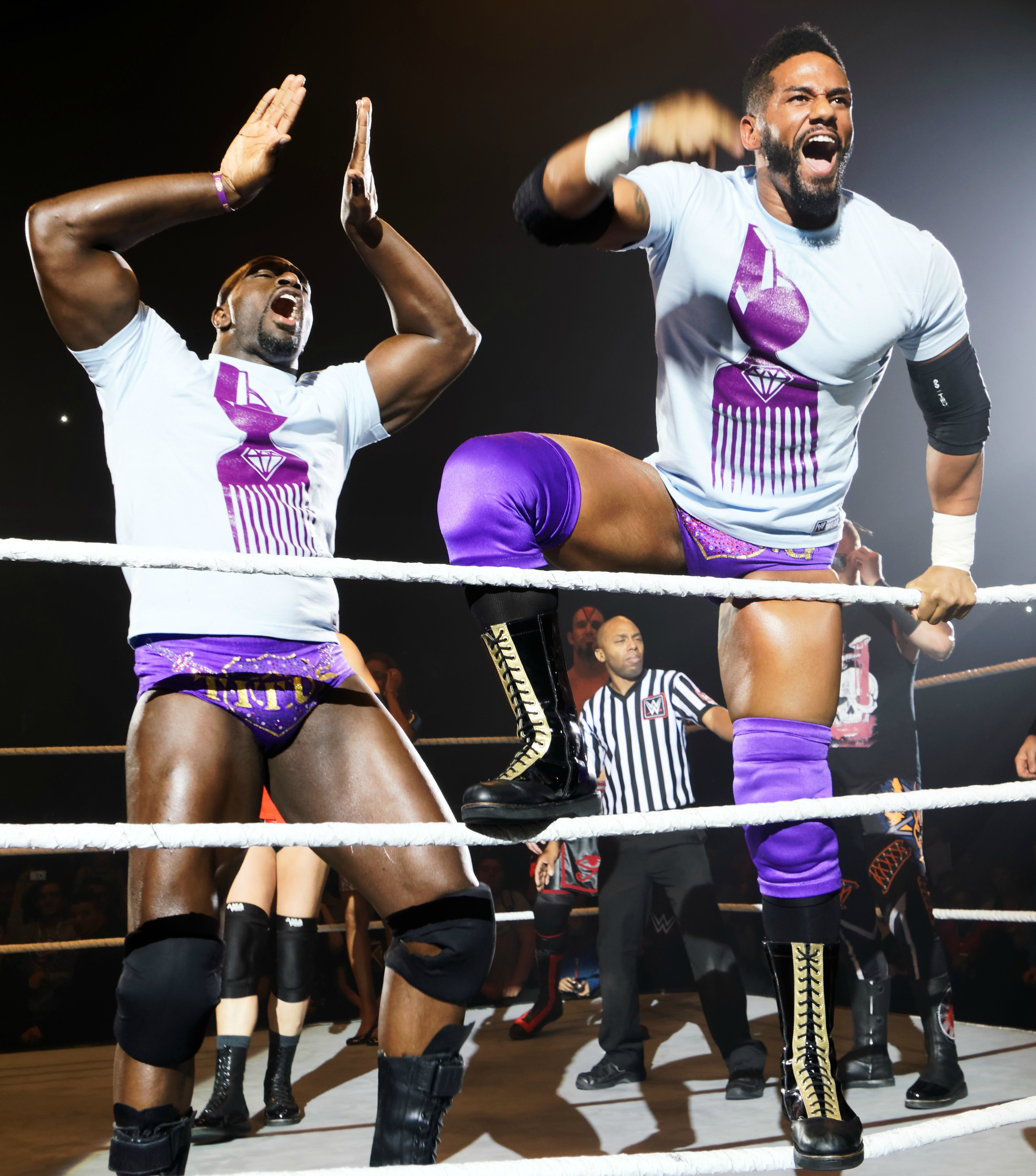 The Prime Time Players during a live event in 2015.